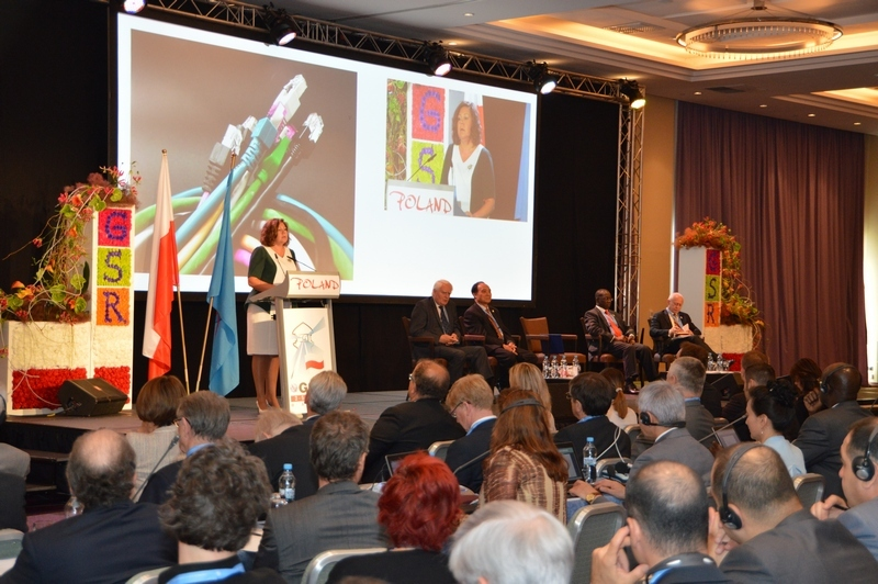 The GSR13 opening ceremony Chaired by Mme Magdalena Gaj, President of UKE, Poland